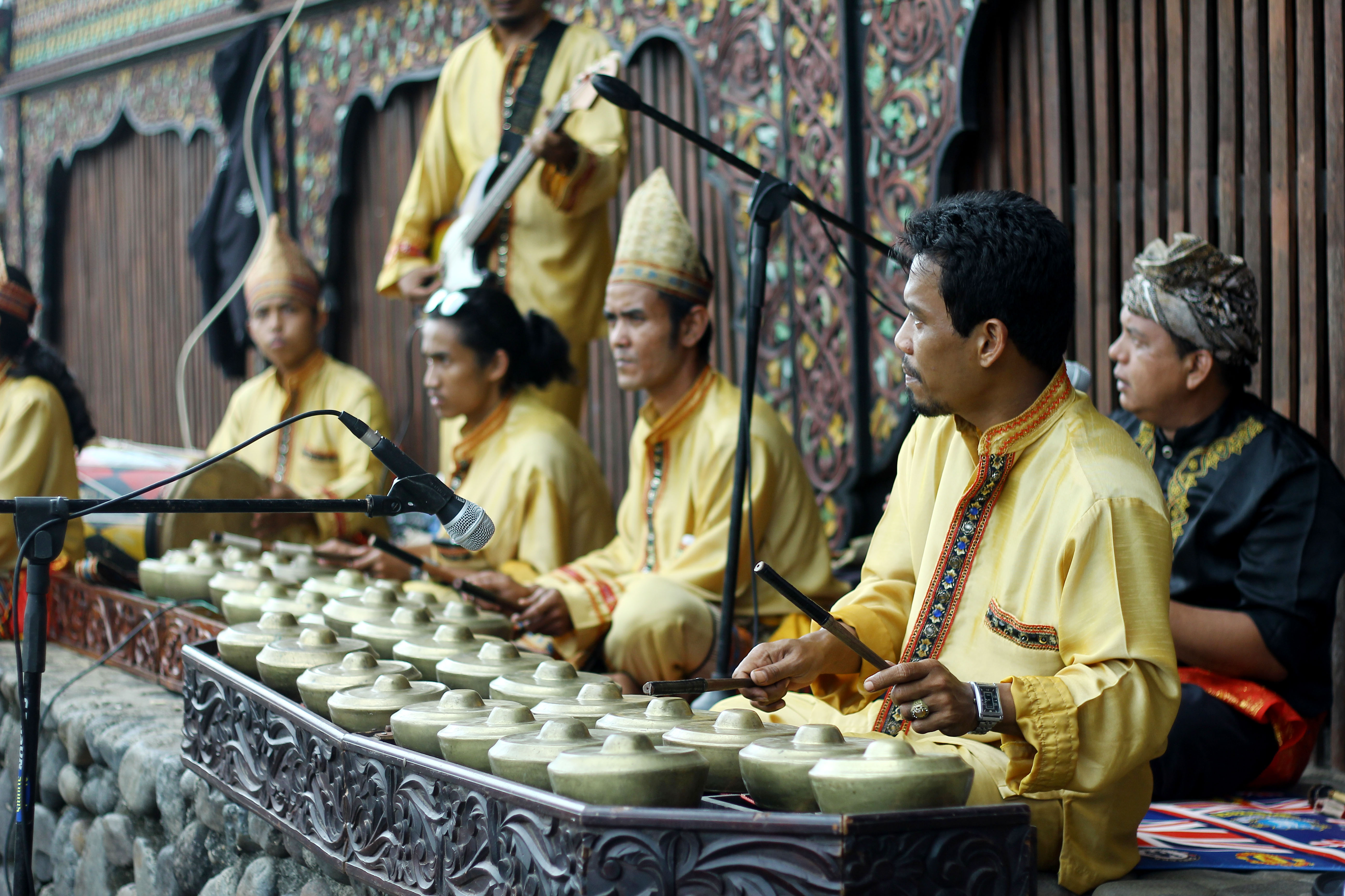 Talempong is a traditional music instrument from Minangkabau, West Sumatra, Indonesia. There are various ways of playing this small kettle gong instruments in Minangkabau. Talempong pacik is a way of playing talempong while holding the instruments with your hands. there would 2-3 players holding the talempongs and played it during a parade. On the picture, a man played a set of Talempongs in a musical performance at Pagaruyung King's Palace, West Sumatra. The man and his team are from Sanggar Sari Bunian, Andaleh, Tanah Datar Regency, West Sumatra.